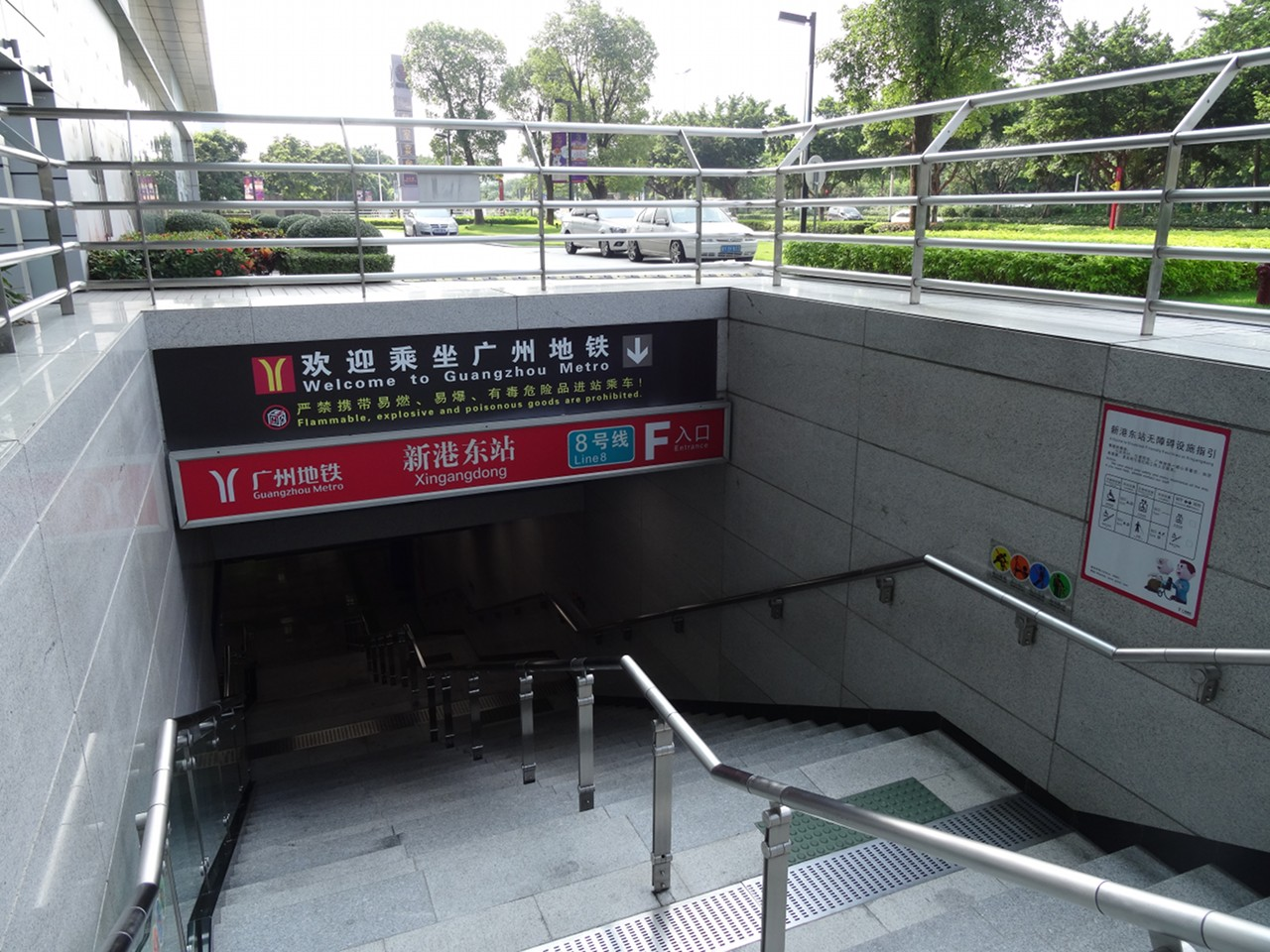 新港東站嘅F出入口